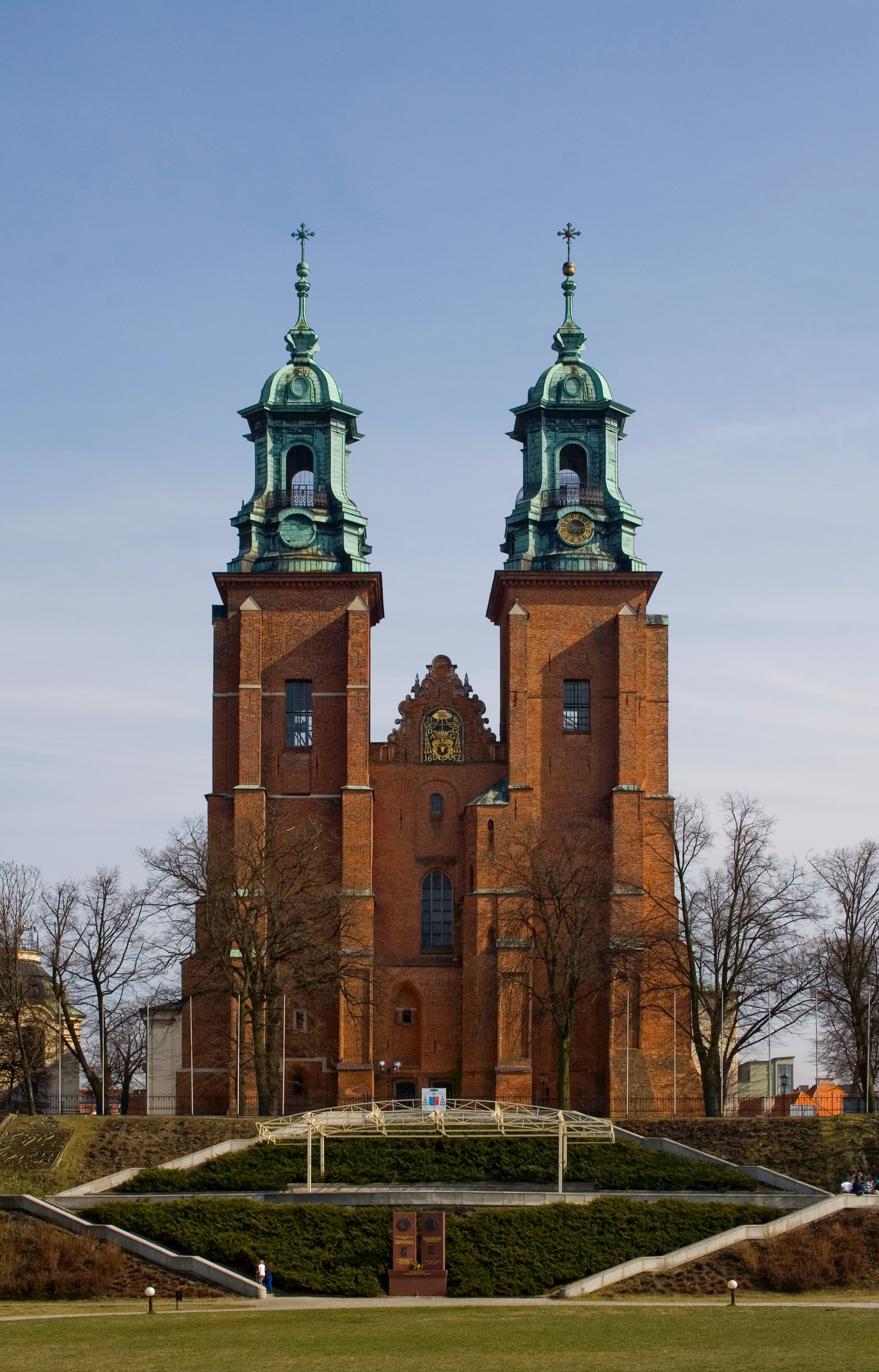 Exterior of the Gniezno Cathedral, Gniezno, Poland